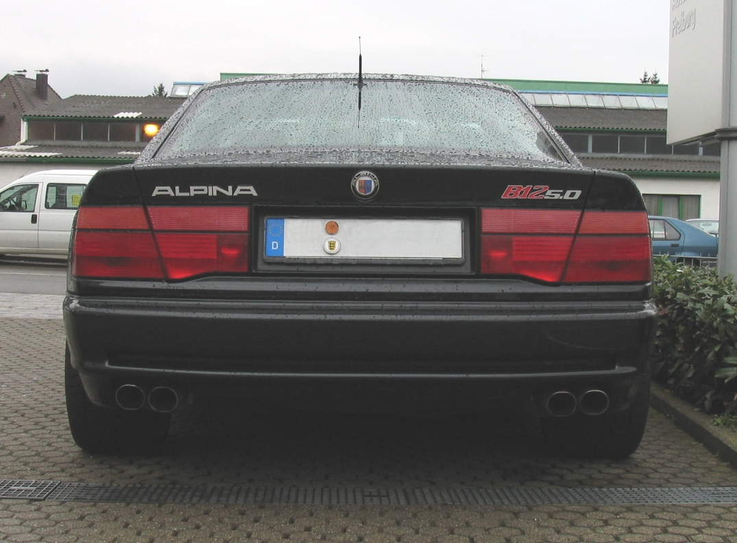 Beschreibung: BMW 850 Alpina B12 Quelle: selbst aufgenommen & bearbeitet Fotograf: CrazyD, 12. April 2006 Lizenzstatus: GNU FDL Description: BMW 850 Alpina B12 Source: photo was taken and modified by my self Photographer: CrazyD, 11 April 2006 Licence: GNU FDL